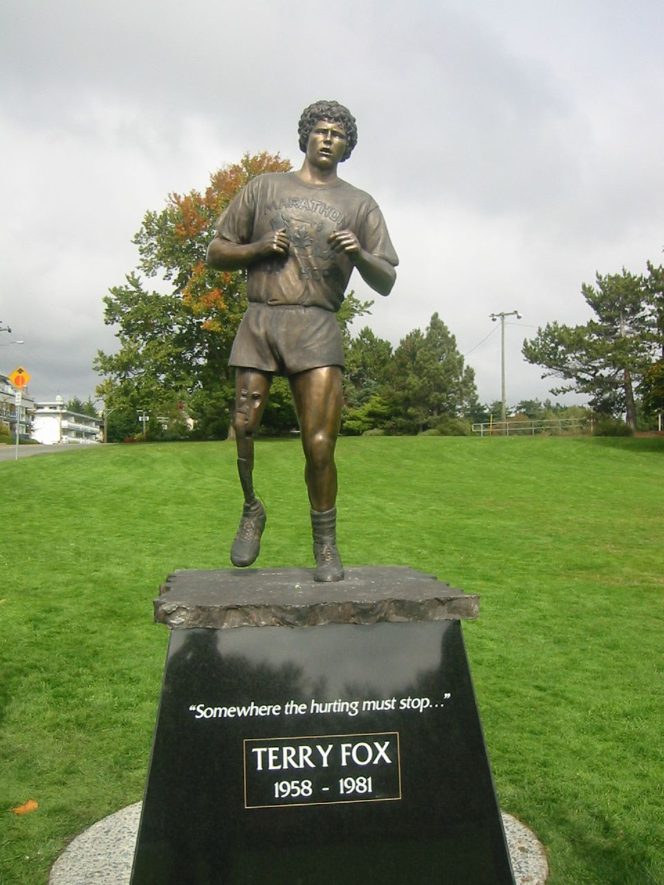 Terry Fox Statue unveiled at Mile 0 (Pacific Side). Very well done. Terry Fox statue in Beacon Hill Park, Victoria, British Columbia, Canada.